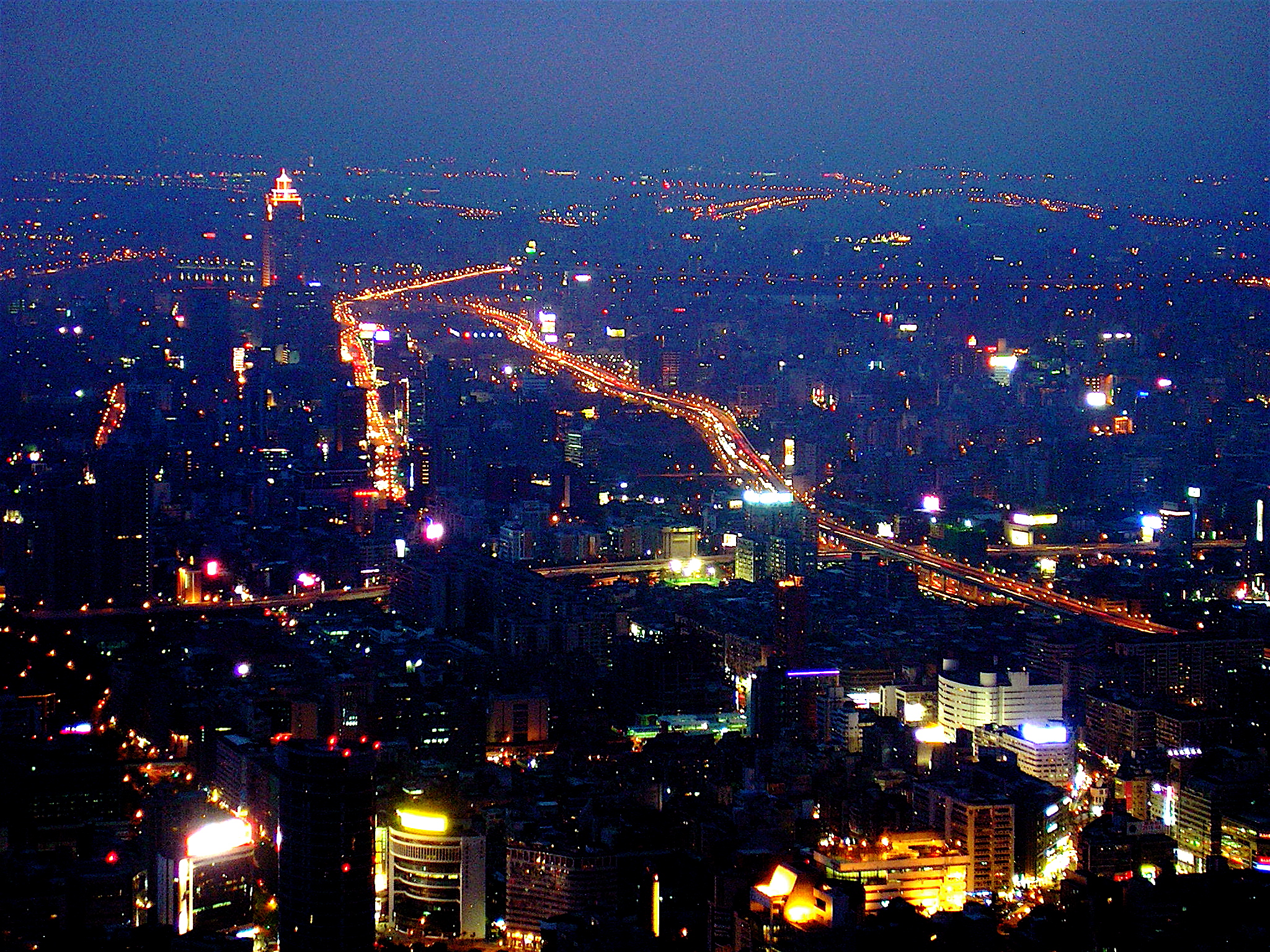 Birdseye view of Taipei City, Taiwan at night, looking towards Taipei Main Station in the Chungcheng District. Taken from the observation deck of Taipei 101.